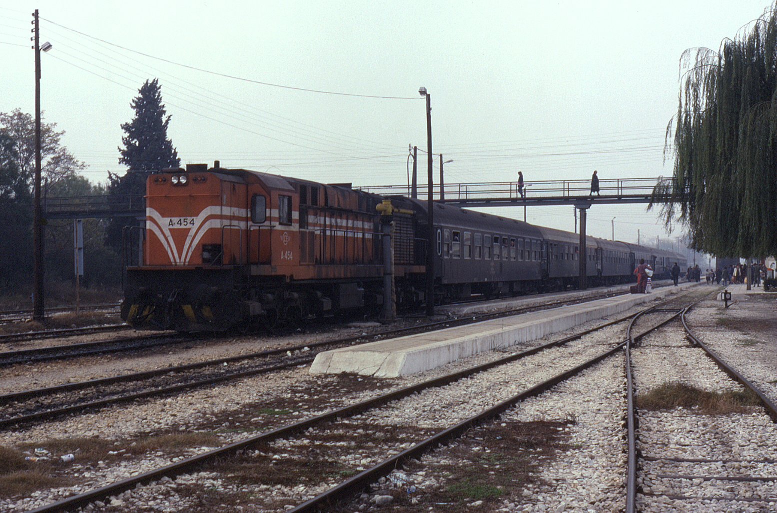 MLW built A.454 seen at Dráma on 5 November 1992 whilst hauling train 604, 21:00 Athīna to Ormenio. The A.451 would have taken over this very long run at Thessaloniki as far as Alexandroupoli.